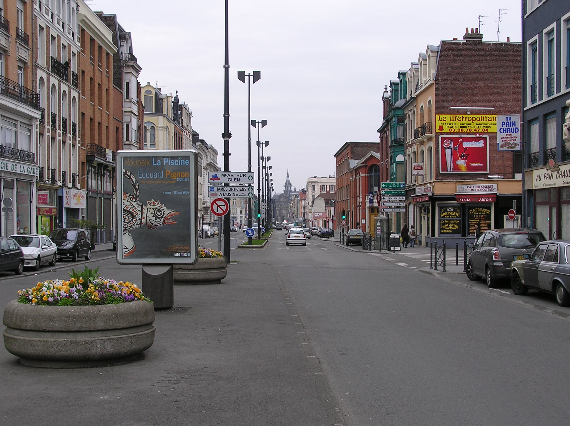 The Avenue Jean-Lebas is the main traffic axis in the city centre of Roubaix, France, and links the city hall to the train station.